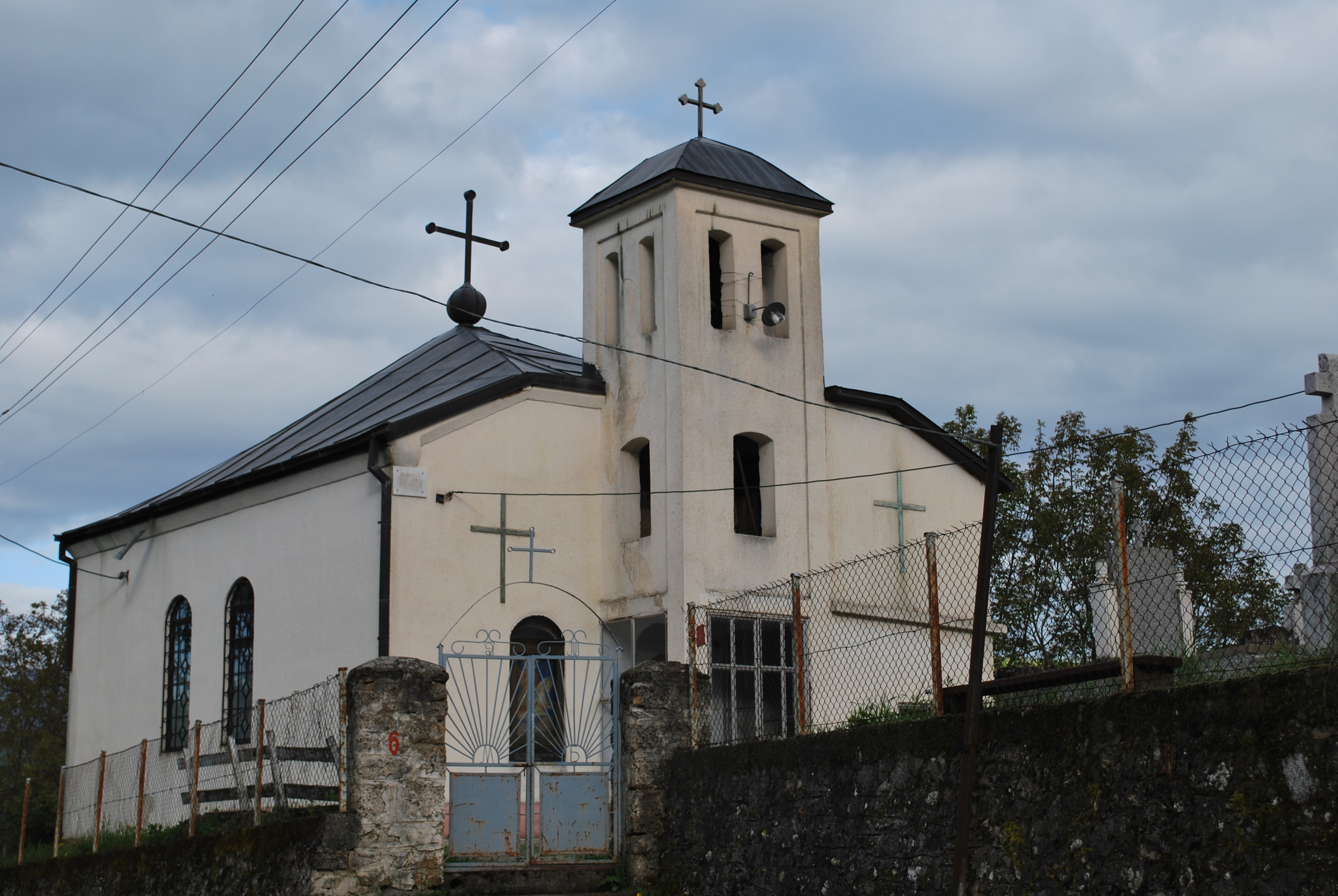 St. Menas Church in Vrutok, Macedonia